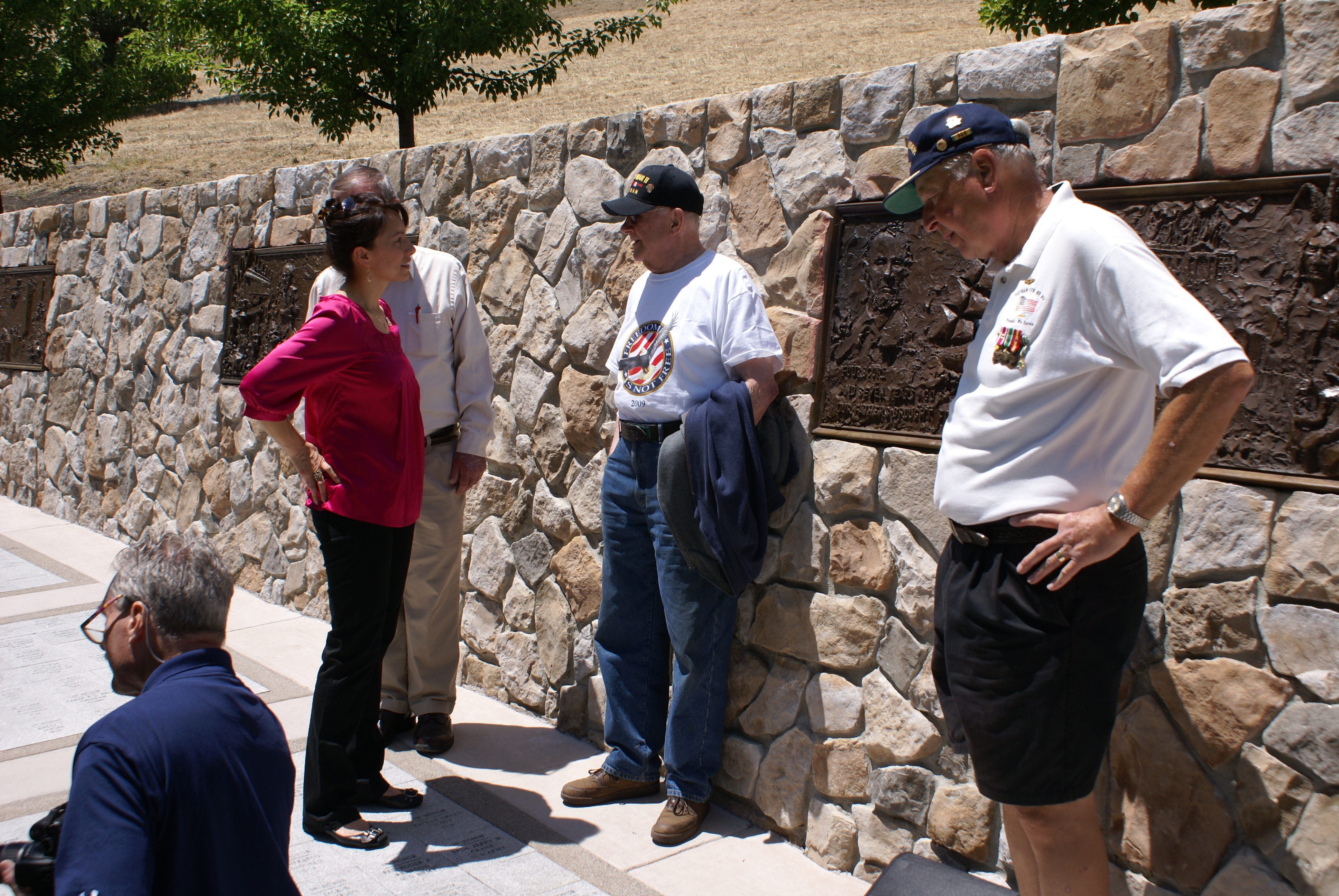 Tiffany Rene Estrella Attwood with talking with Vets on Memorial Day at Vets Memorial.